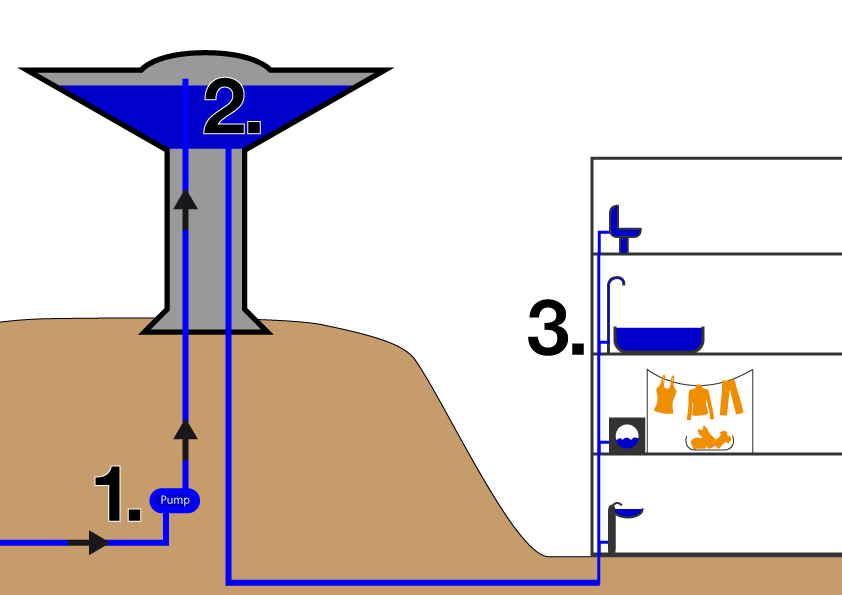 Watertower